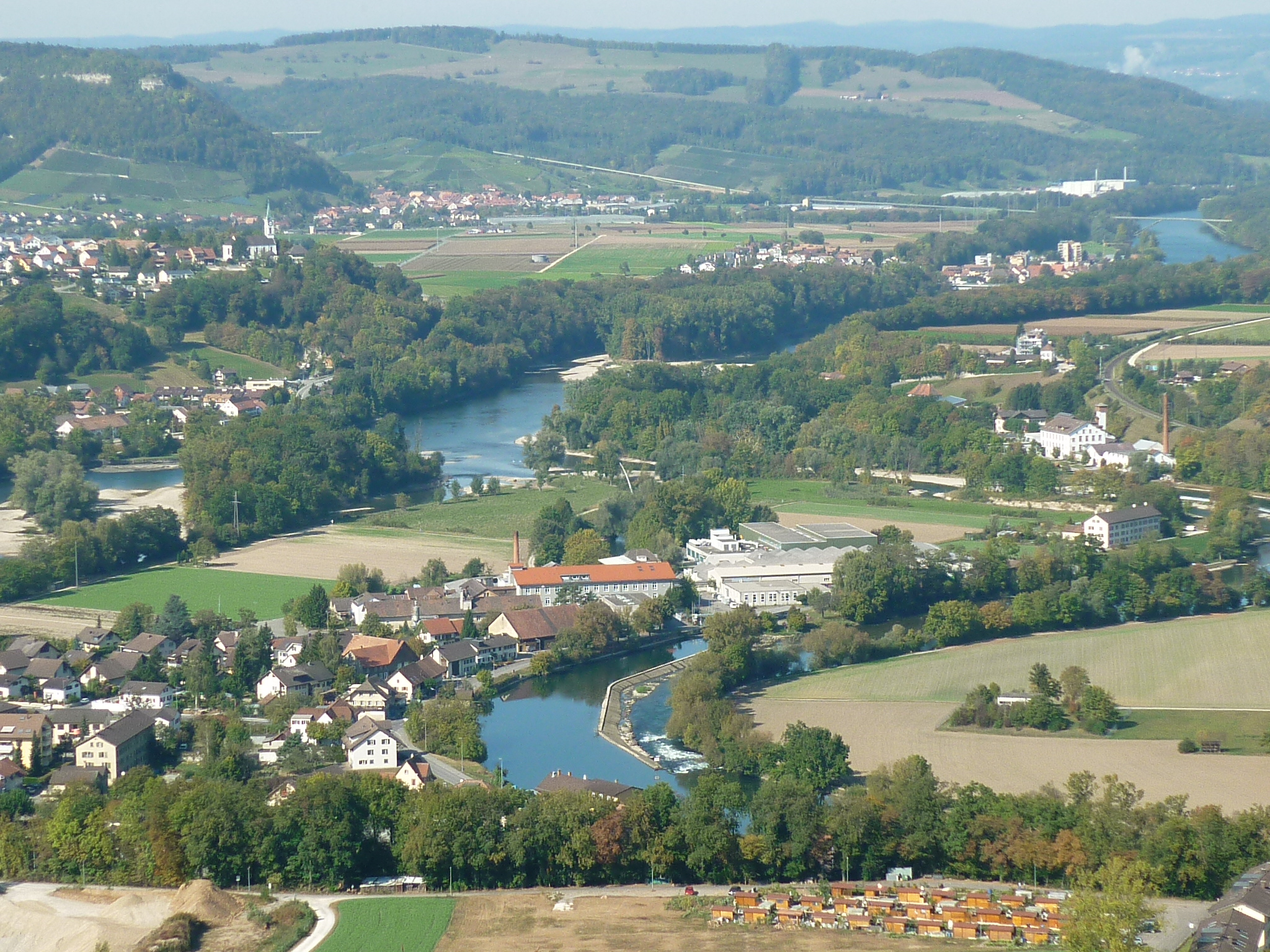 View to Vogelsang (Gebenstorf AG) and the "Wasserschloss"; in the down middel the river Limmat, from the left to the right the river Aar